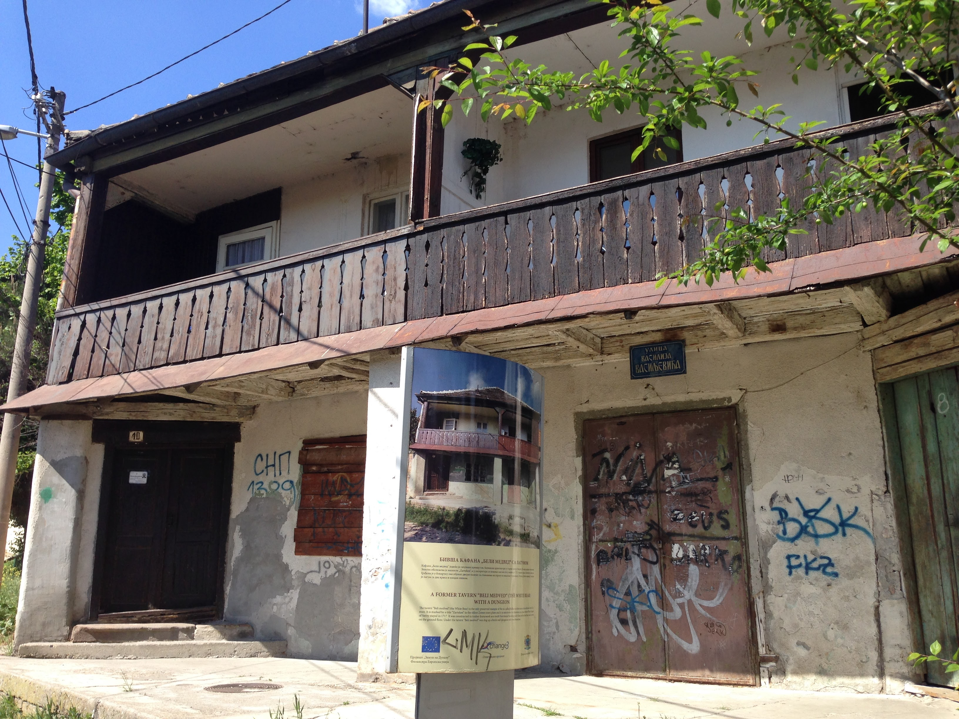 A former tavern "Beli medved" (the white bear) with a dungeon, Zemun, Serbia Srpski (latinica): Kafana Beli medved sa lagumom iz 17. veka. Zemun, Srbija